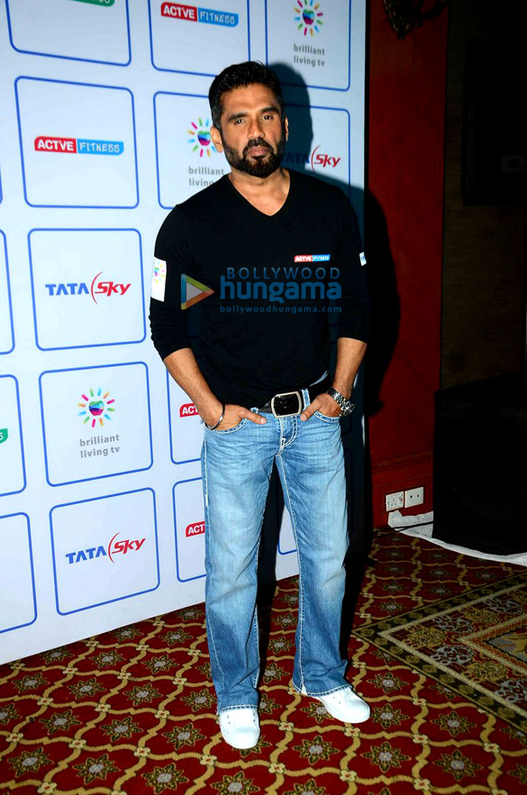 Suniel Shetty at Tata Sky's Health And Fitness launch